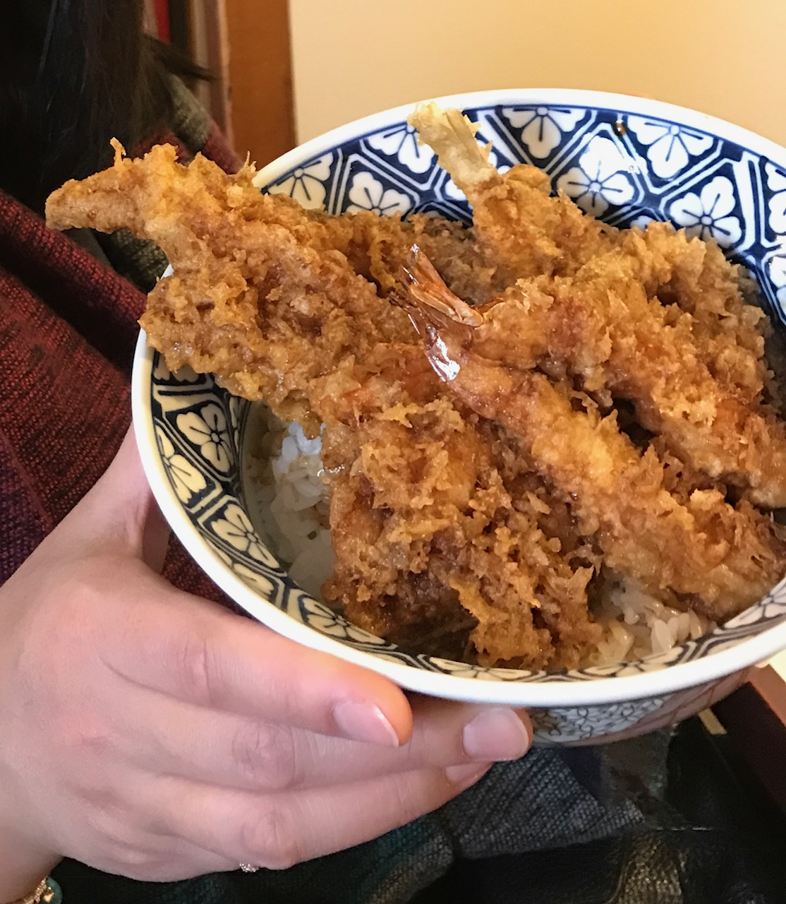 tendon shrimp rice